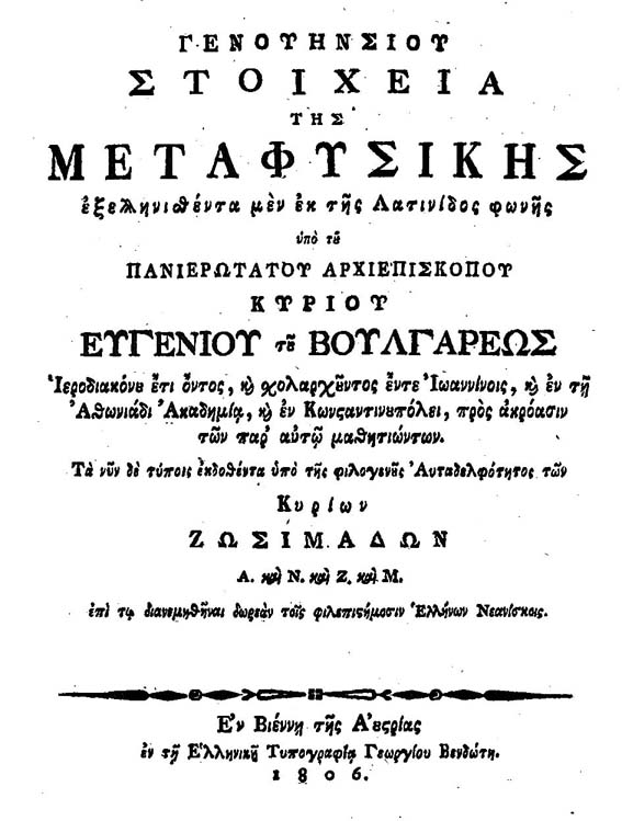 Evgenios Voulgaris, First page of book Elements of metaphysics, translated from the work of Γενουήνσιου (Genovese?)